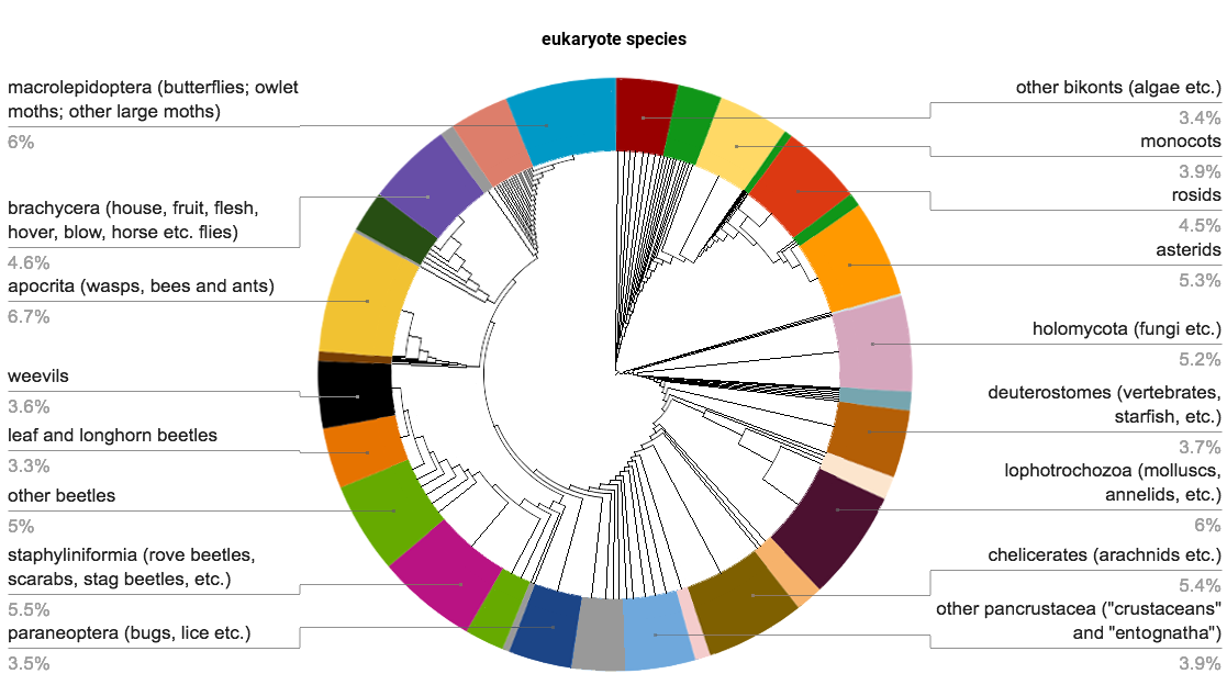 A circular tree of life for the eukaryotes inside a pie chart of described species as of 2017. No excavata or varisulca branches were included due to the complicated relationships between these and the unikonts and bikonts, and due to uncertainty in the number of described species in these taxa. The pie chart uses 393,927 for the total number of bikonts and 1,524,883 for the total number of described unikont species (of which 968,086 are insects - the first grey sector at the bottom and everything after it, going clockwise). However, the numbers of described species for some branches are approximate.